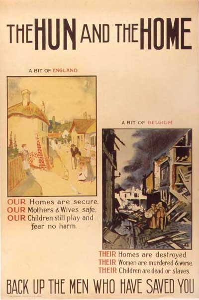 World War I British anti-German propaganda poster. (See this for more information.)